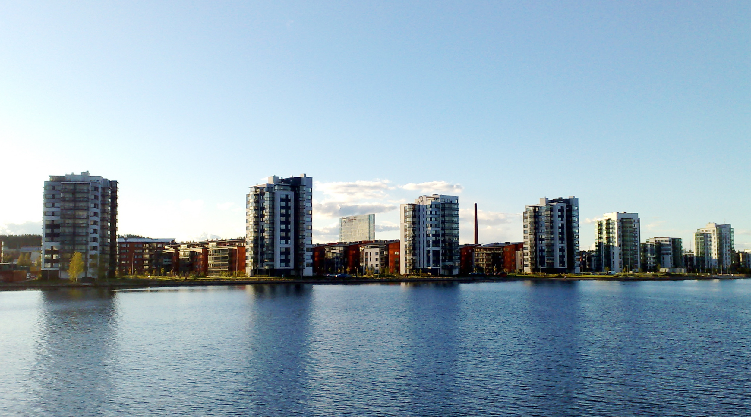 Lutakko from the lake Jyväsjärvi. Lutakko is a district in city of Jyväskylä, Finland.